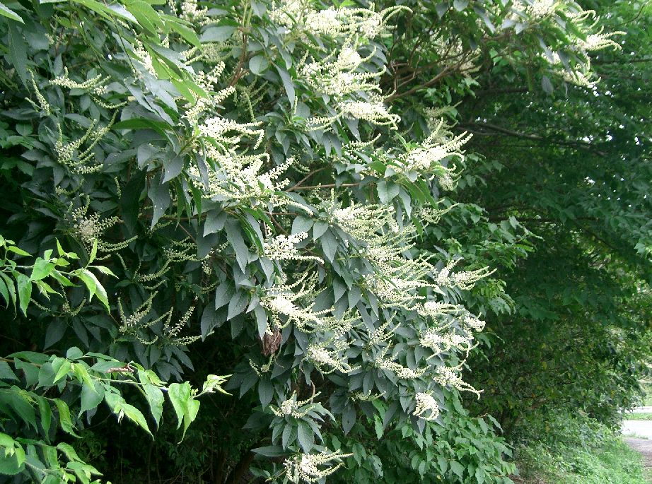 Clethra barbinervis